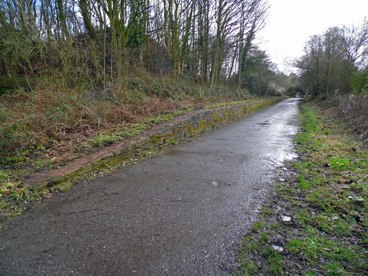 Site of High Lane Railway Station, taken in March of 2019. Half of one side of platform has been removed, with the edge capping stones for the remaining full length platform having been removed shortly before photo was taken.